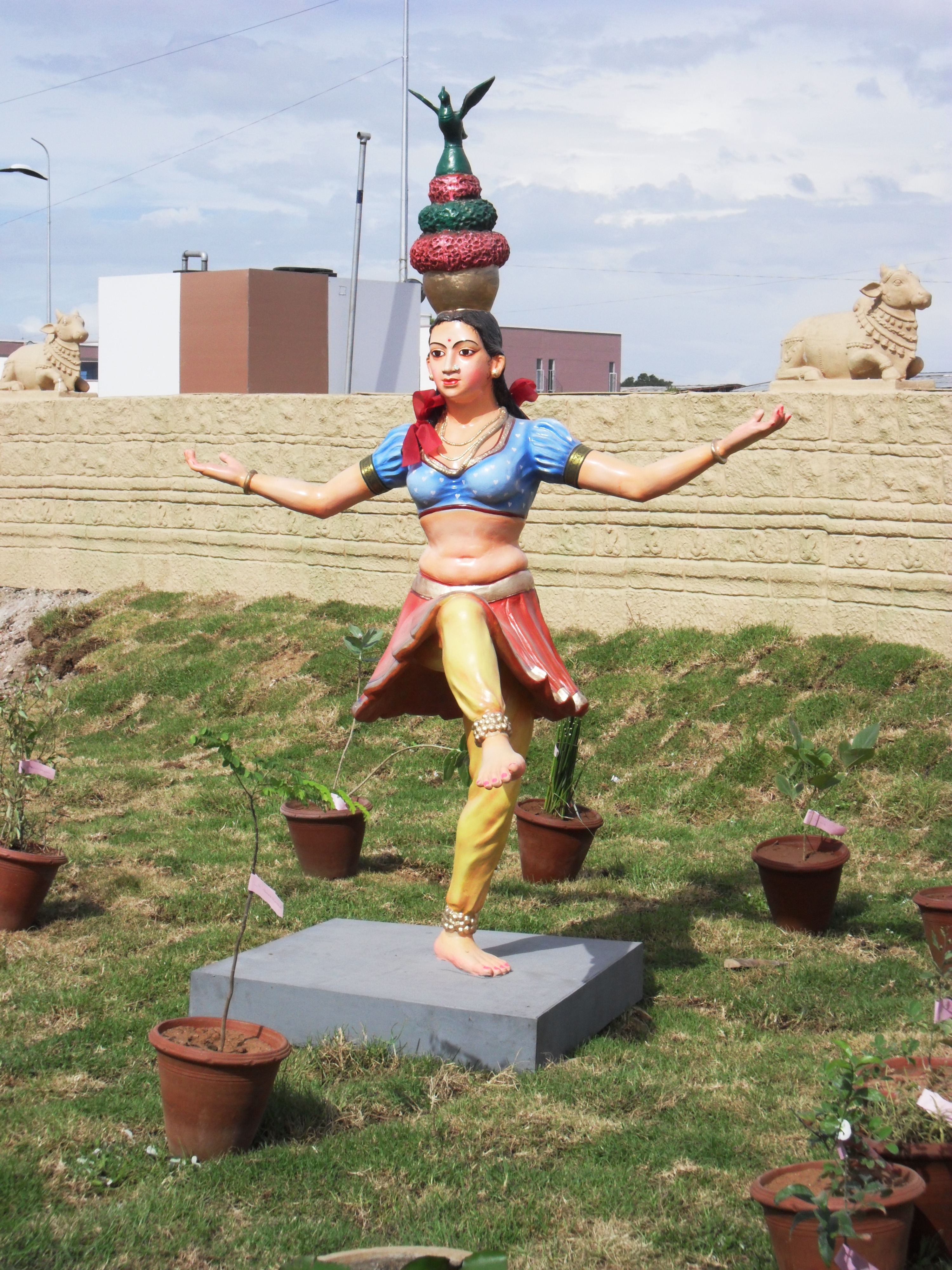 Statue of a dance form in Tamil Nadu called as Karagattam.